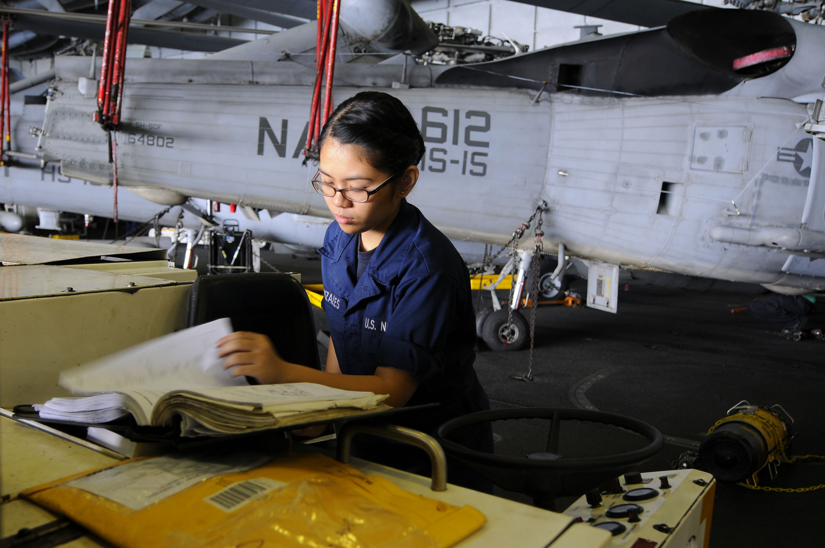 U.S. Navy Airman Tracey Gonzales performs maintenance on a mobile electric power plant in the hangar bay of the aircraft carrier USS Carl Vinson (CVN 70) in the Arabian Sea on Feb. 13, 2011. The Carl Vinson Carrier Strike Group was deployed supporting maritime security operations and theater security cooperation efforts in the U.S. 5th Fleet area of responsibility.